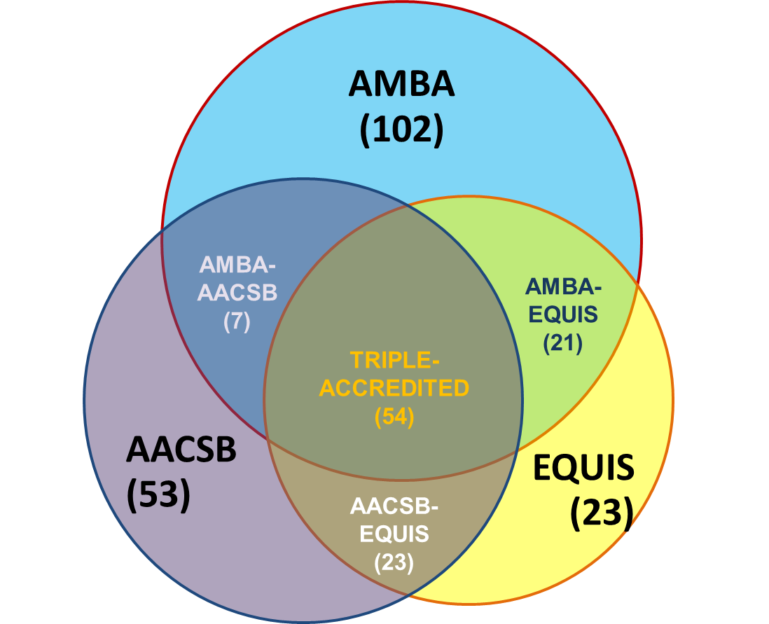 This Venn diagram shows the number of schools which have single, double or triple accreditation (by AACSB/AMBA/EQUIS) outside of North America (USA & Canada). The US is not included to avoid distorting the graph with the large number of AACSB-accredited schools there (around 500).